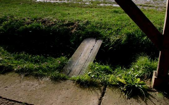 Little footbridge in Denmark, simple beam bridge made of wood or concrete/stone material (?)